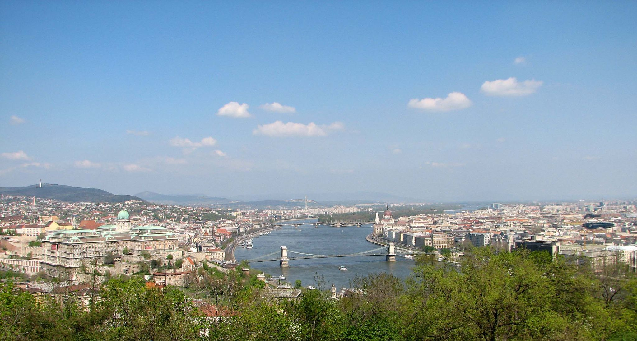 View from Gellért Hill toward north